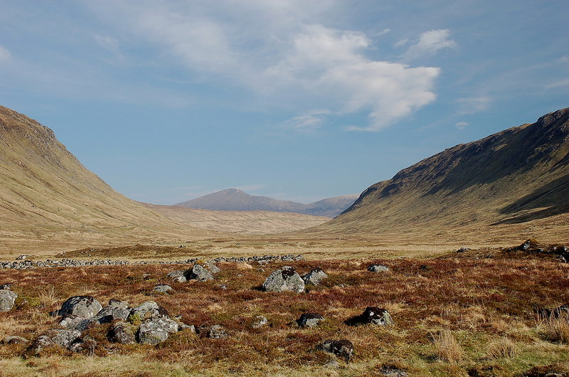 Strath Ossian - a short straight U-shaped valley that runs N from Corrour, Scotland.